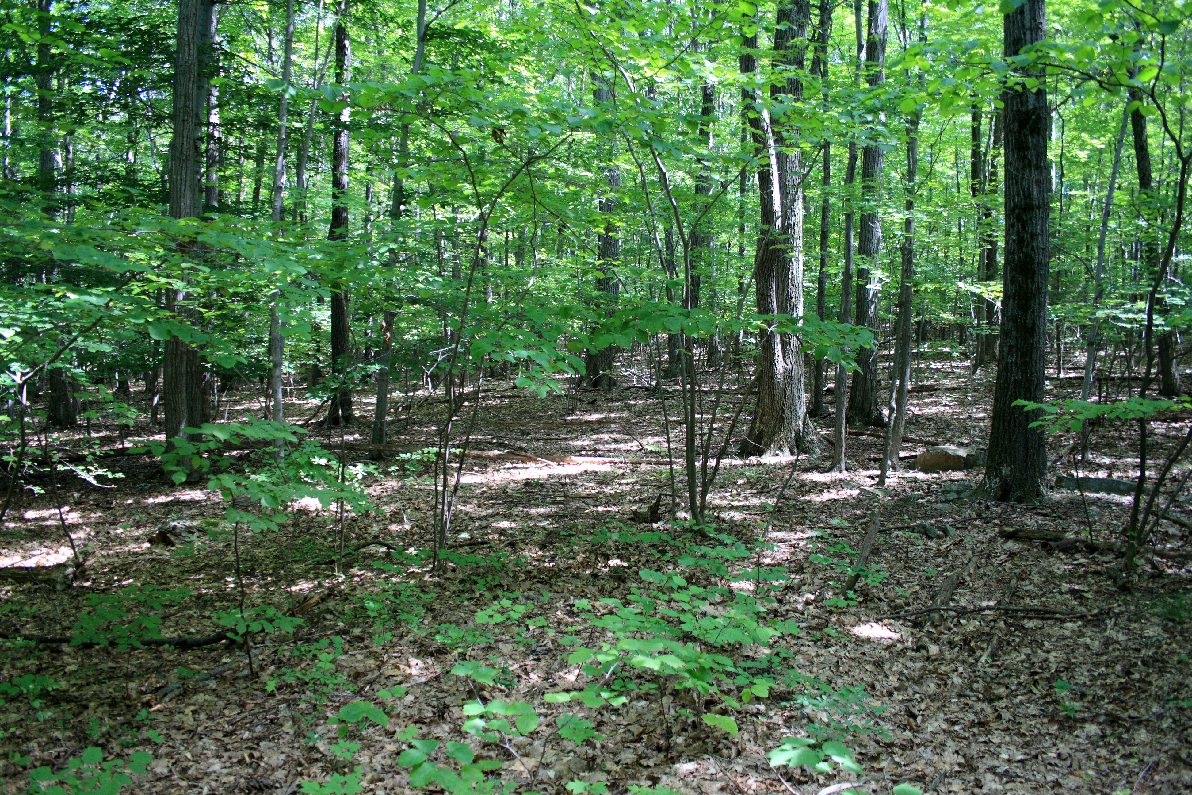 The woods of a Rochambeau campsite from the American Revolution, in West Hartford near the Metropolitan District Reservoir No. 6